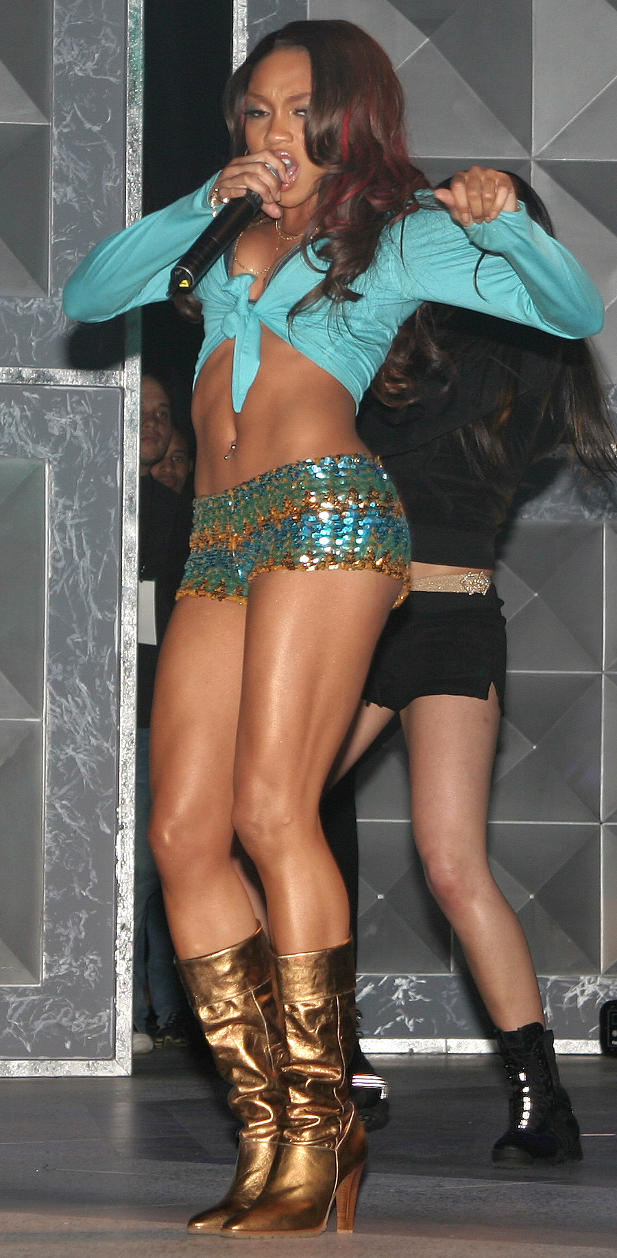 Brooke Valentine at the Rip the Runway show in March 2005.